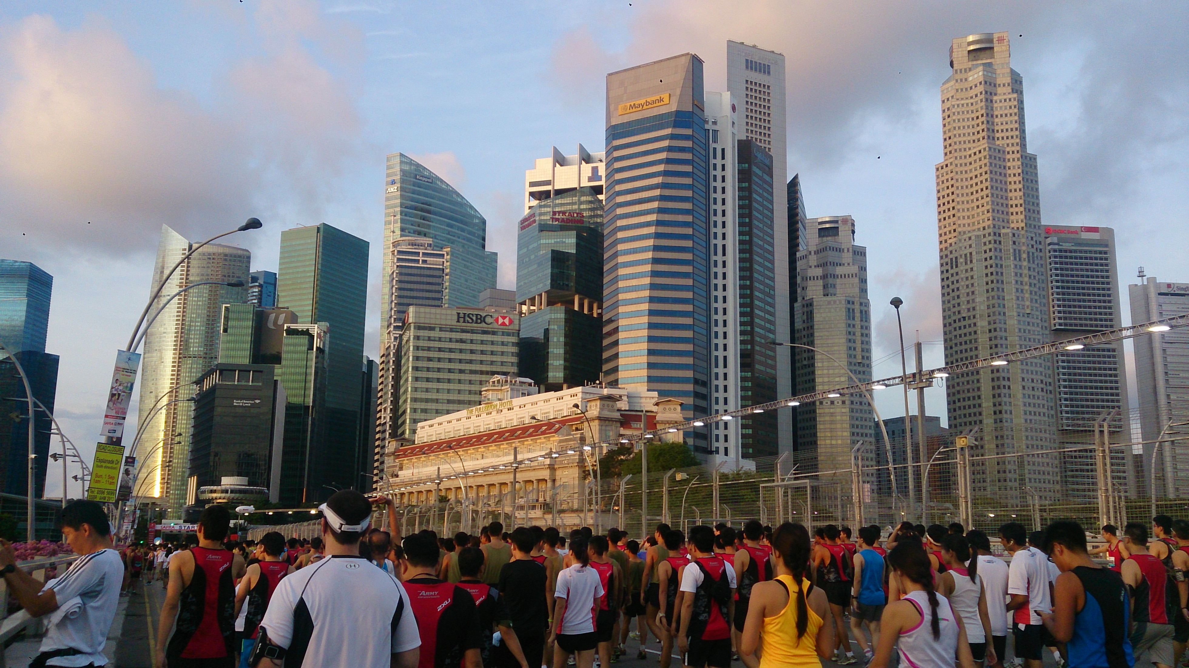 View of the busy financial district in central Singapore. In the foreground are runners preparing for a 10-km morning run in the area.